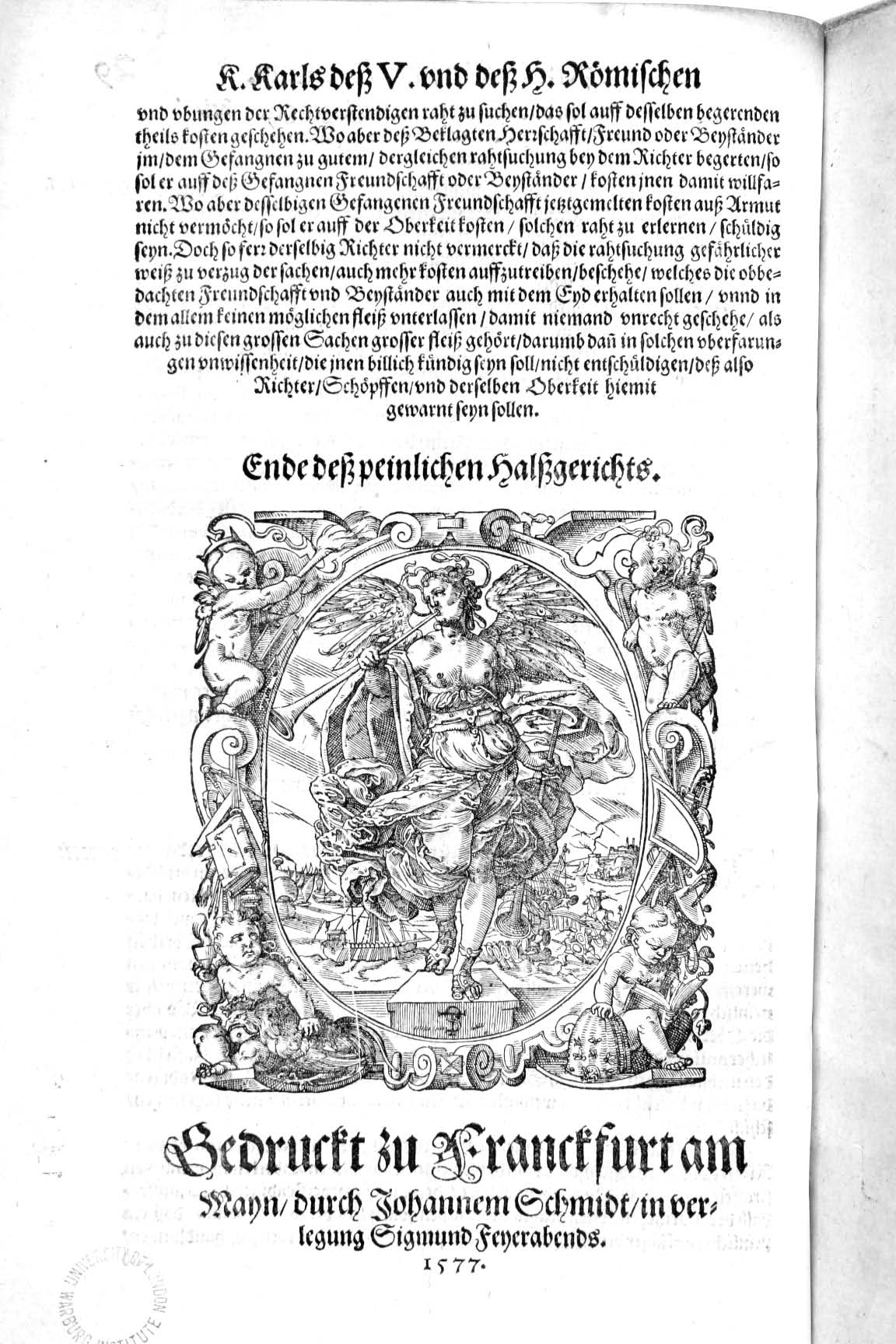 This is a scan of the historical document